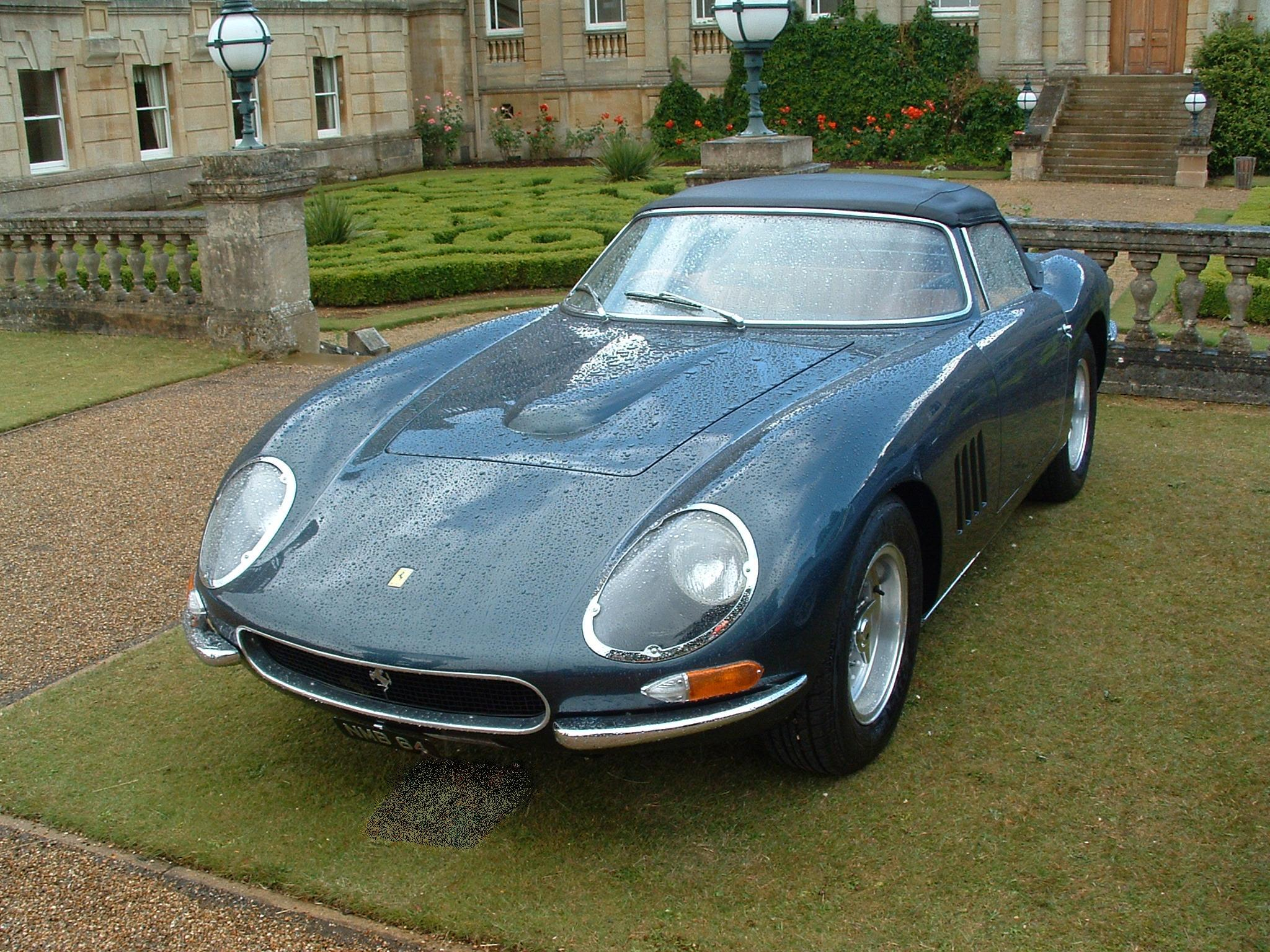 1965 Ferrari 330 GT 2+2 Mk1 (5805GT), rebodied in the style of a Nembo Spyder. Seen at 2004 UK Ferrari Owners Club National Concours